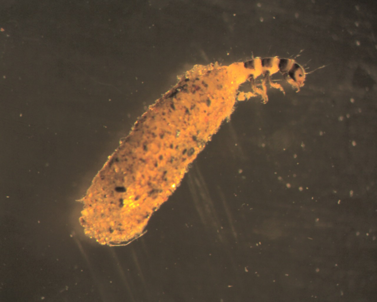 Caddisfly larva